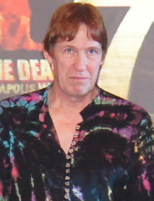 (Seated, L-R) Marilyn Burns, Teri McMinn, William Vail, Ed Neal, John Dugan, Ed Guinn, Allen Danziger from the TCM panel at Days of the Dead Indianapolis 2012.